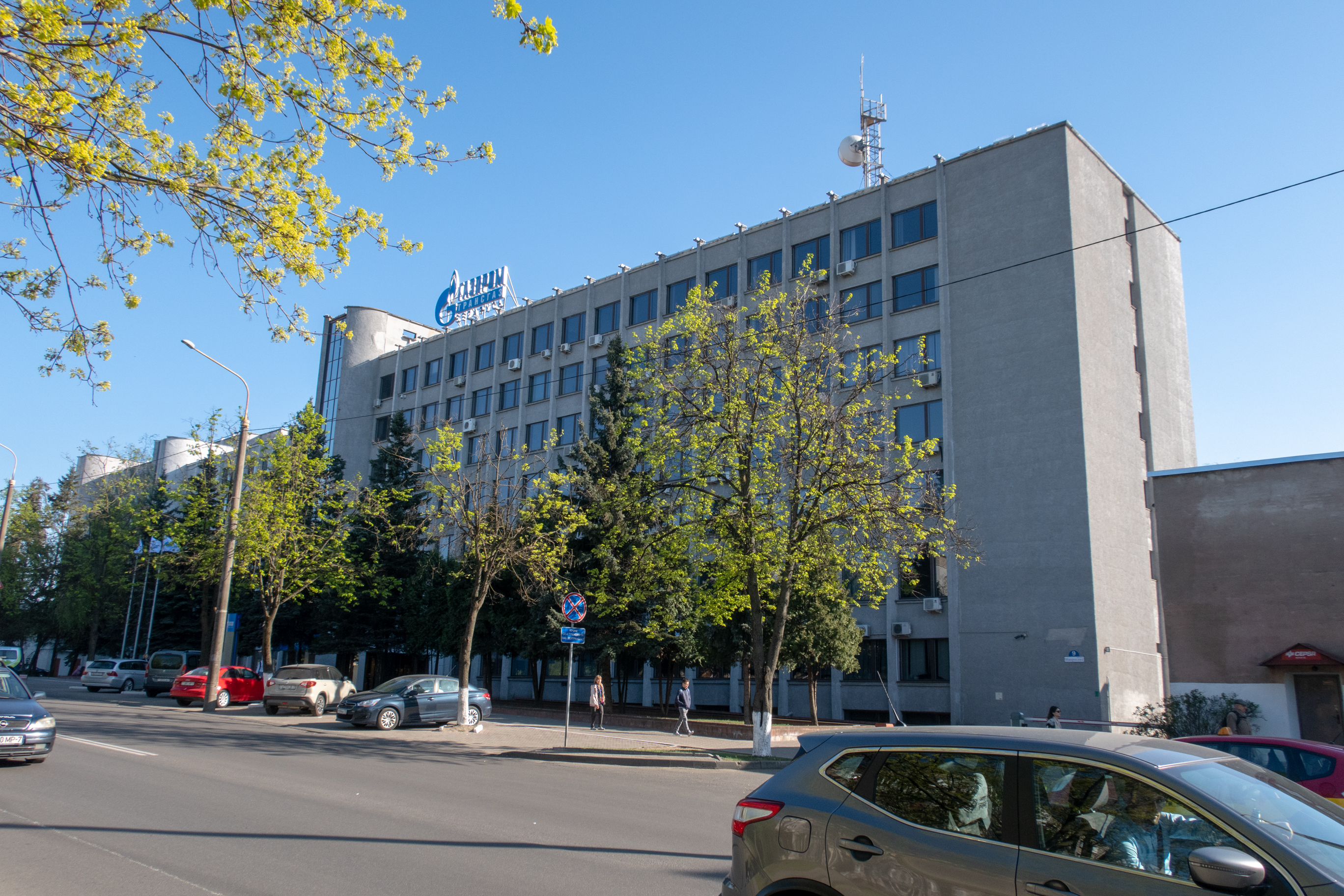 9 Niakrasava street (Minsk, Belarus). Gazprom transgaz Belarus (Beltransgaz) headquarters